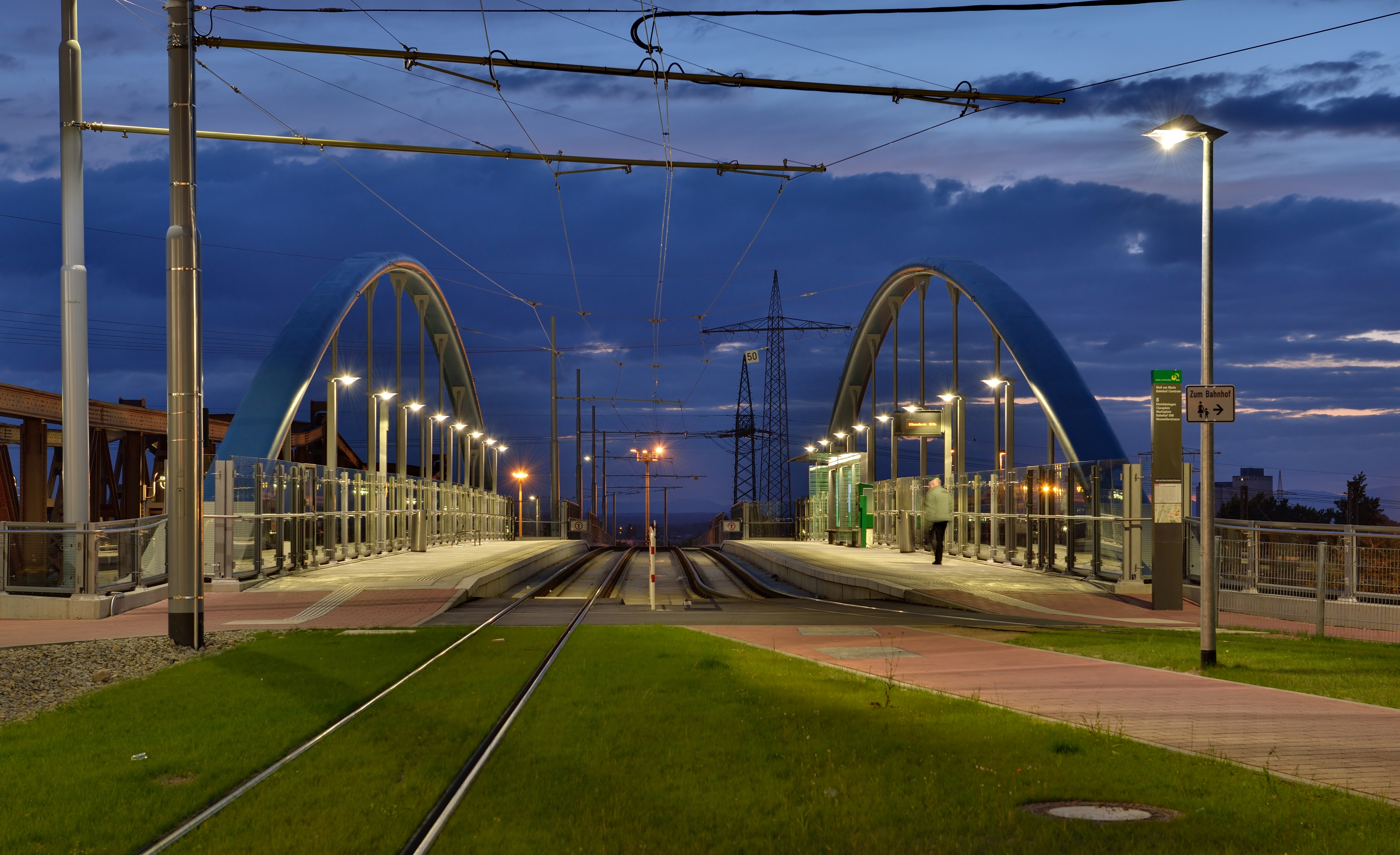 Tramway bridge (Weil am Rhein)